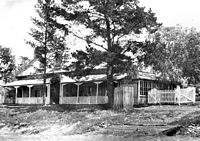 The Royal Bull's Head Inn, Drayton, south of Toowoomba. The original inn was built in 1848 and was replaced by the existing building in 1858. The first proprietor was William Horton and it was the location of the first Anglican service on the Darling Downs, conducted by Reverend Benjamin Glennie in 1848.